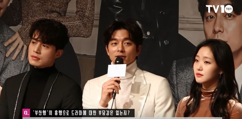 Press conference of Guardian: The Lonely and Great God